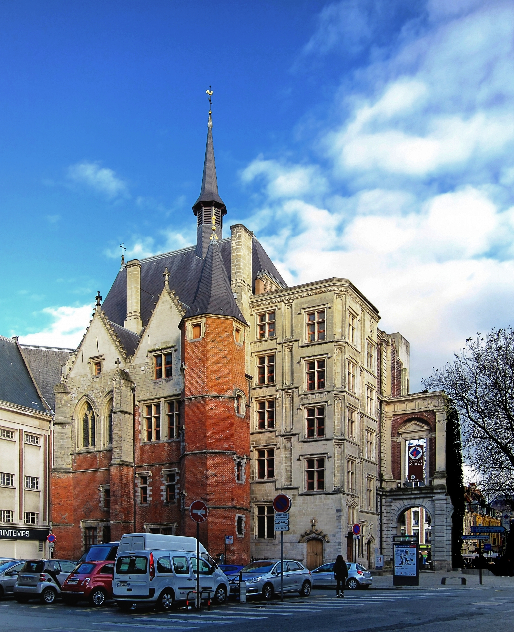 Palais Rihour in Lille (Nord, France), remains of the Dukes of Burgundy Palace built in the middle of the 15th century by the architect Evrard de Mazières, now the visitor center of the city.